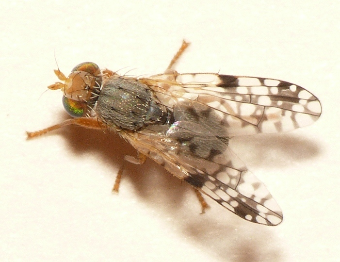 Tephritis dioscurea, location: The Netherlands - Rhenen - Blauwe Kamer - Gelderland